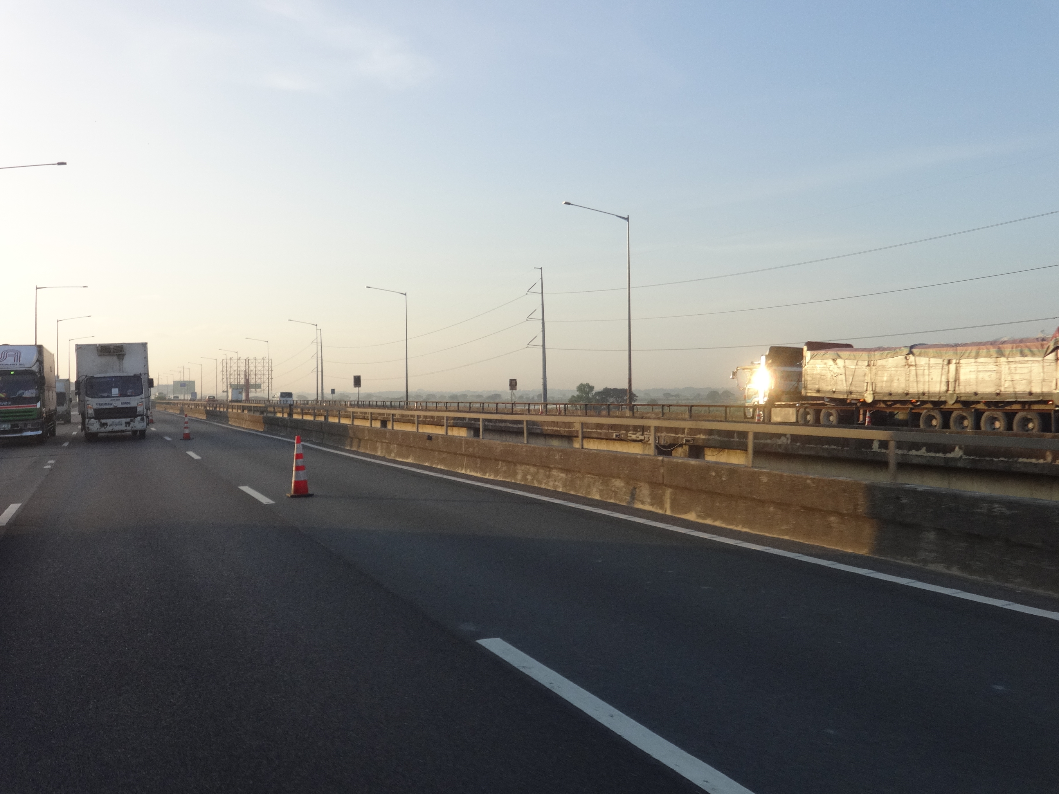 Candaba Viaduct along North Luzon Expressway in Bulacan